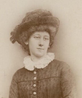 Anne Cobden-Sanderson by Unknown photographer, albumen cabinet card, 1881